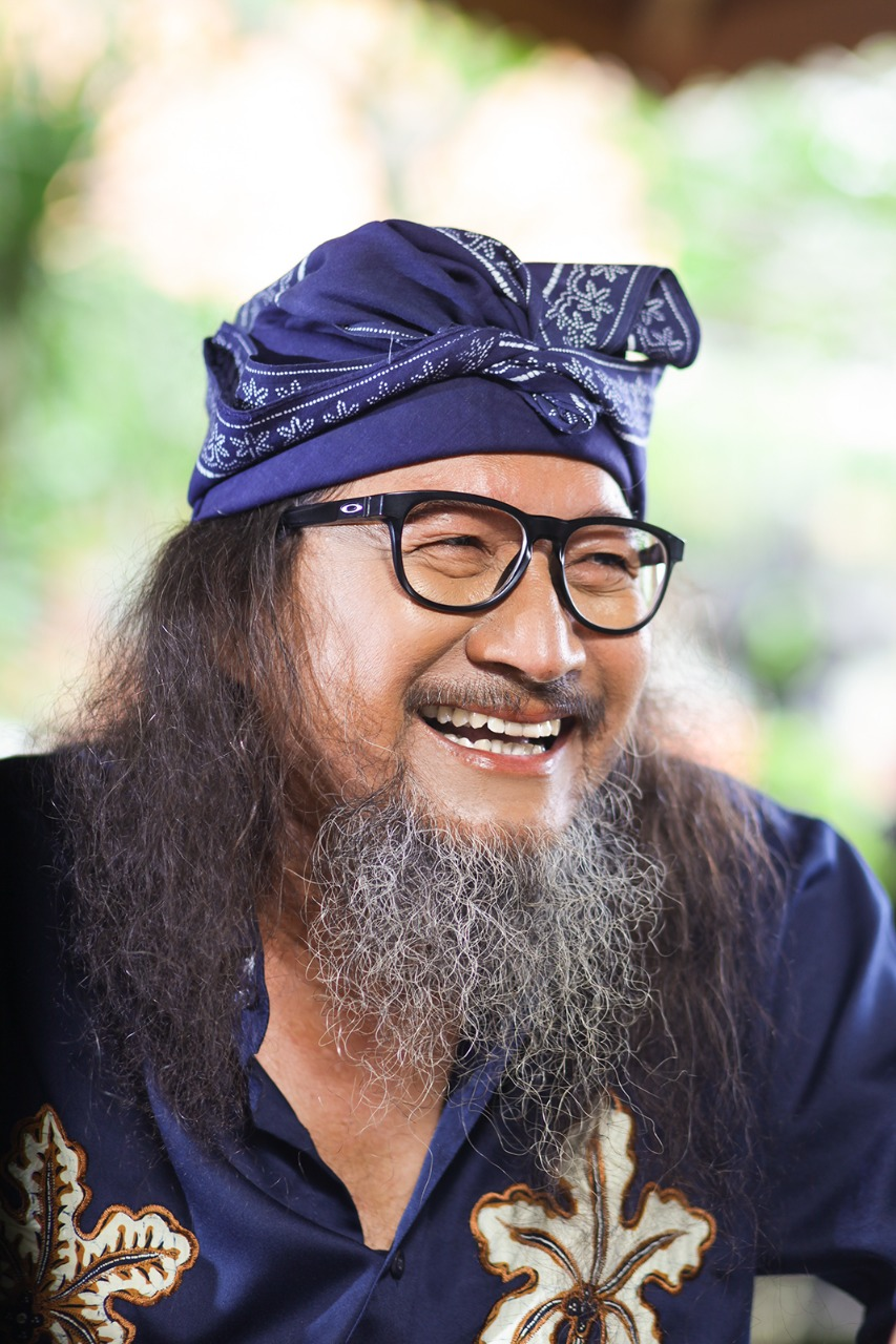 inventor Kutus Kutus Oil